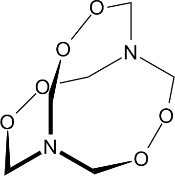 The structure of HMTD according to: William P. Schaefer, John T. Fourkas, Bruce G. Tiemann, "Structure of hexamethylene triperoxide diamine", Journal of the American Chemical Society 1985 107 (8), 2461-2463